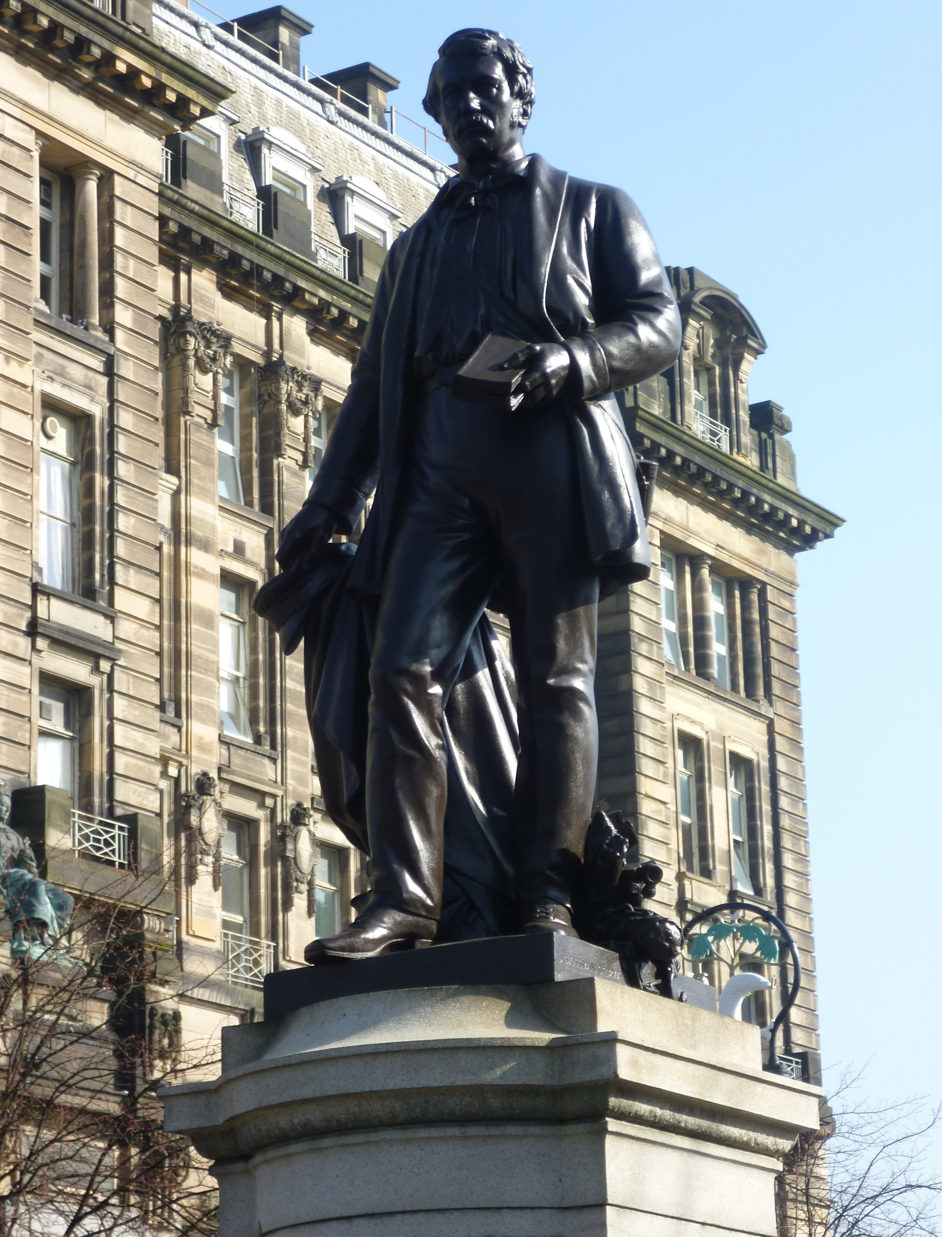 The statue stands in Cathedral Square.